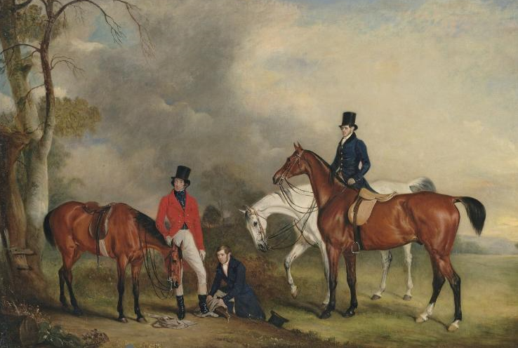 James Ogilvie Fairlie with his grooms John Jennay and Cooper, and his hunters Spicey, Wing and The Little Mare. The horses in this picture were the three principal steeplechasers in Fairlie's stables. Wing was named after the Buckinghamshire village where a deer was taken on an extraordinary run with Mr. de Burgh's Staghounds.